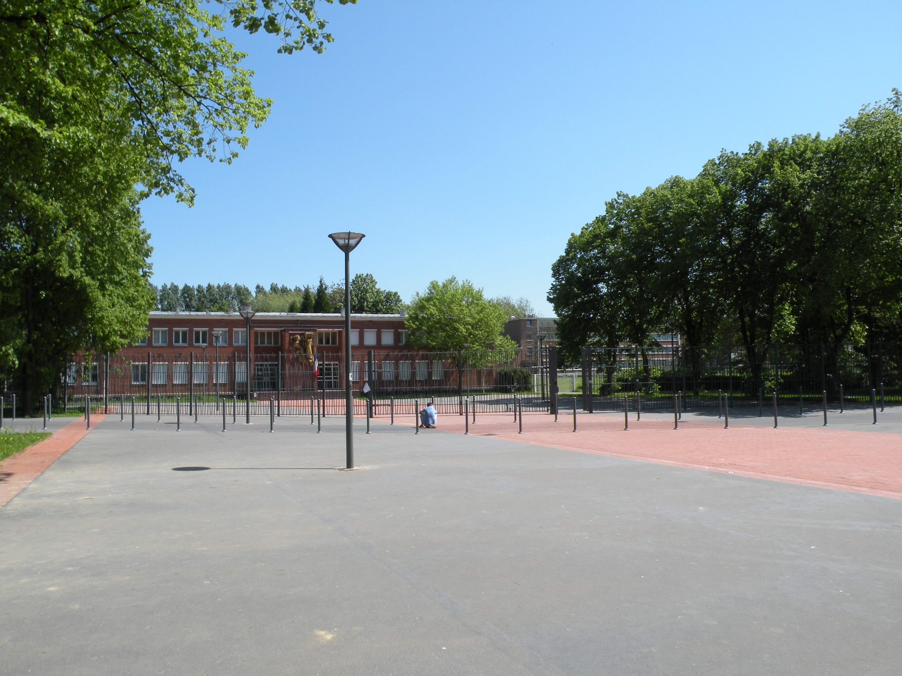 Lycée Faidherbe (main entrance), Lille, France